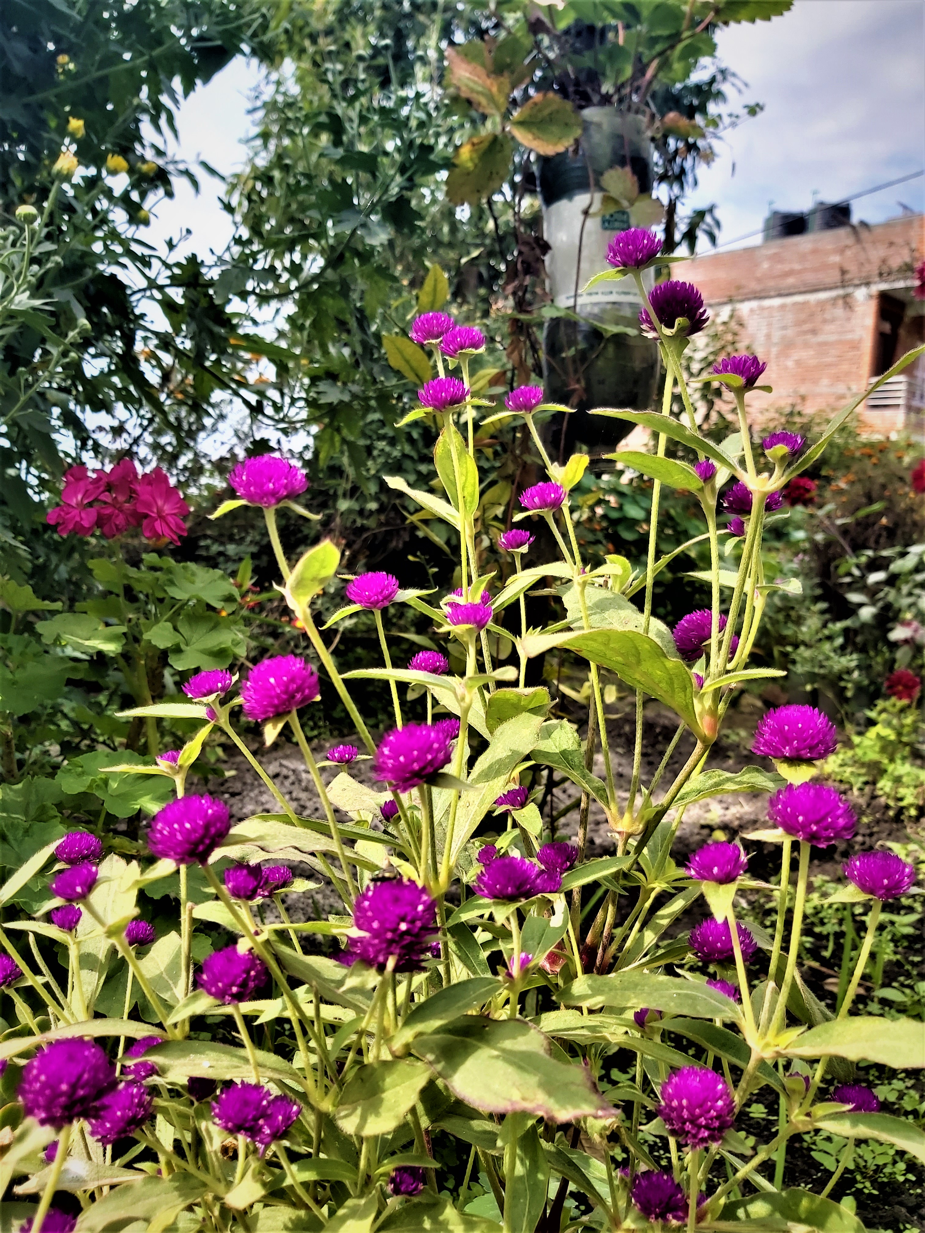 Gomphrena globosa